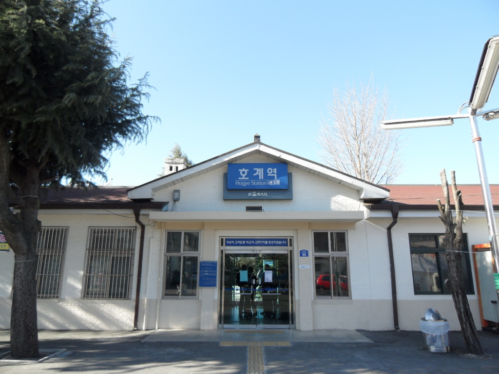 Korail Hogye Station